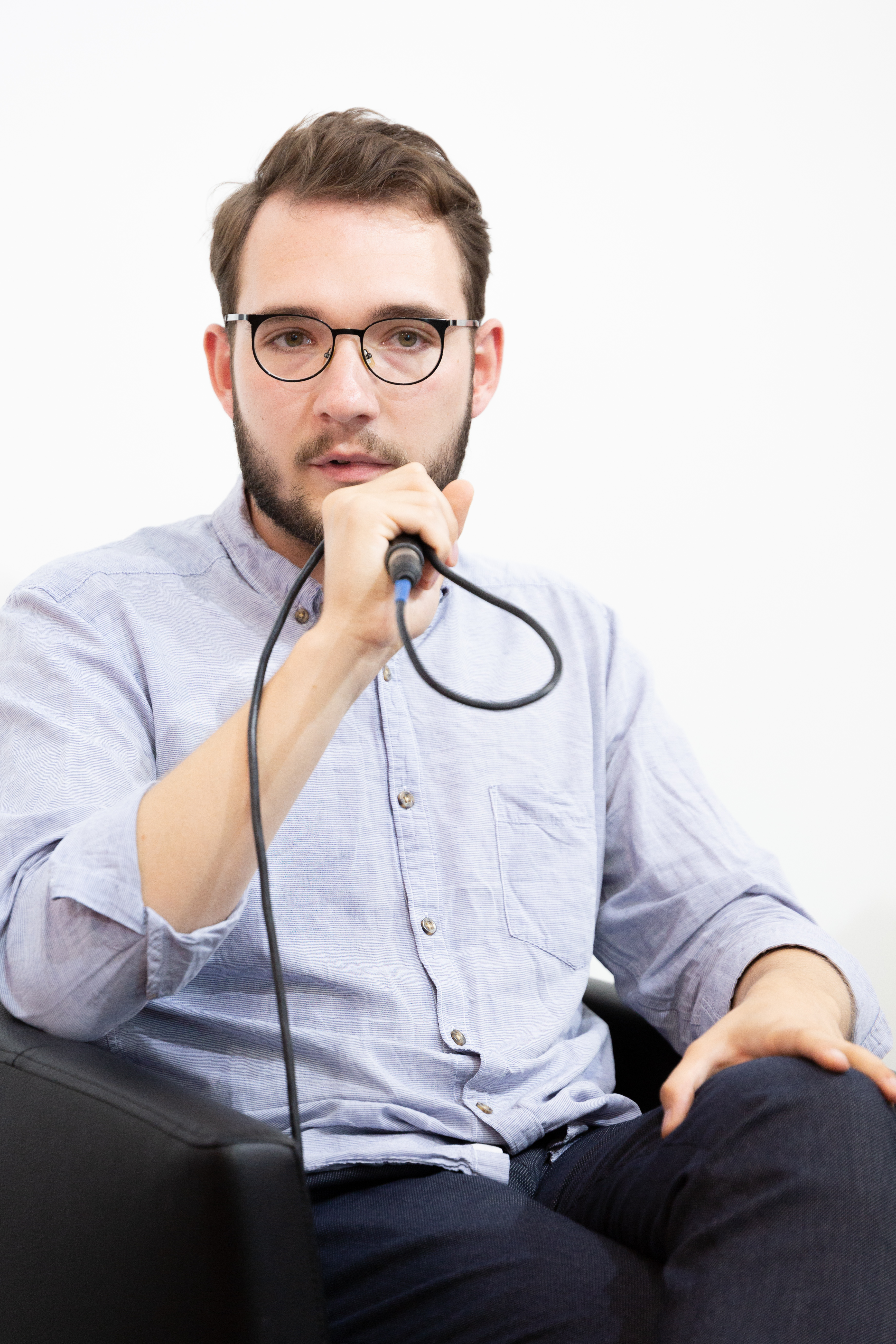 The author Lukas Rietzschel at the Frankfurt Book Fair 2018